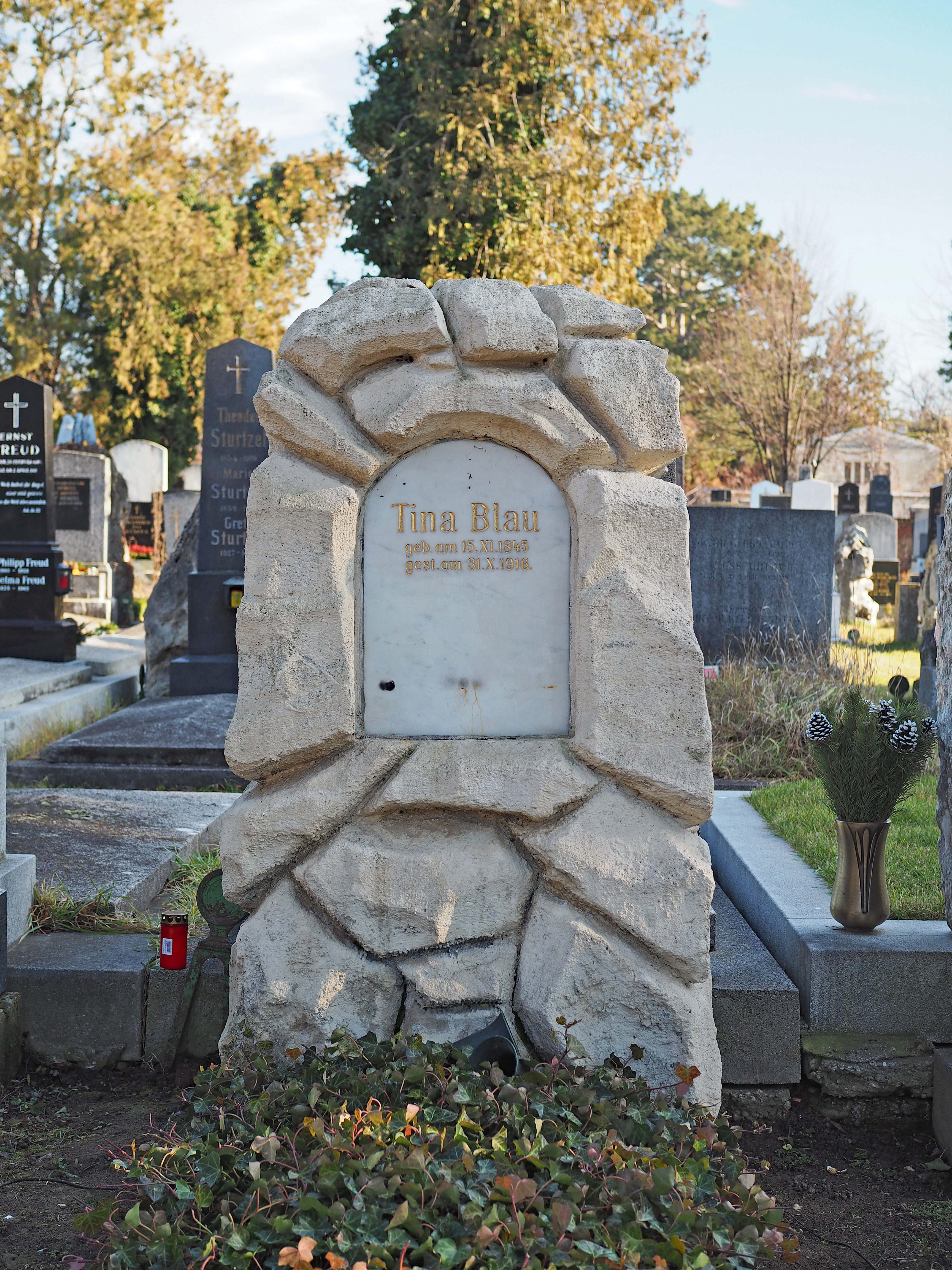 Grave of the painter Tina Blau (1845–1916) in the Protestant section of the Vienna Central Cemetery (gate 3, group 3, number 12)